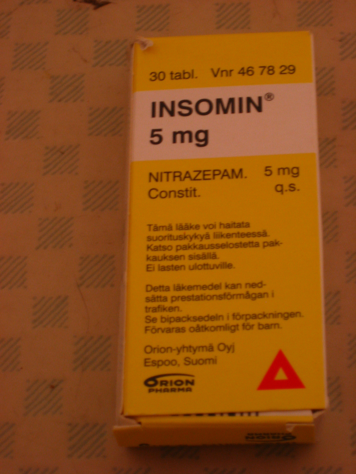 Insomin (nitrazepam) medicine pack.